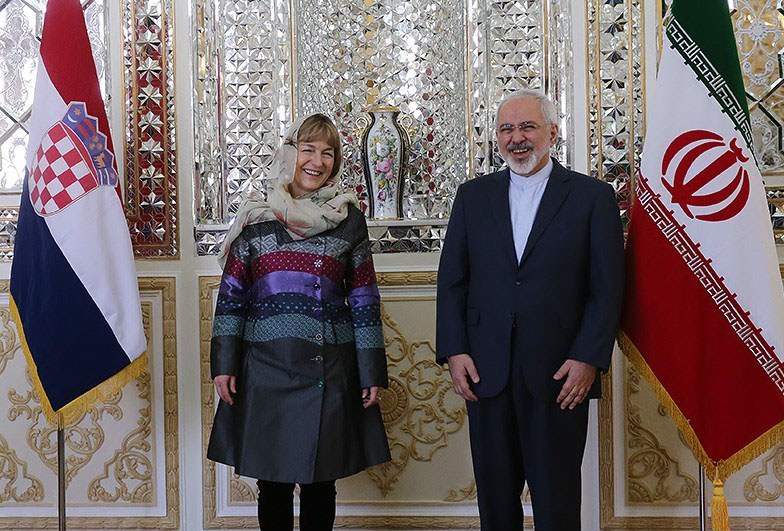 Pusic and Zarif are talking on bilateral relations in Tehran.